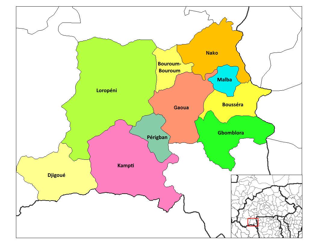 This map has been uploaded by Osiris fancy from to enable the Wikimedia Atlas of the World. Original uploader to was Rarelibra. Osiris fancy is not the creator of this map. Licensing information is below. Map of the departments of Poni province in Burkina Faso. Created by Rarelibra 03:33, 30 September 2006 (UTC) for public domain use, using MapInfo Professional v8.5 and various mapping resources.